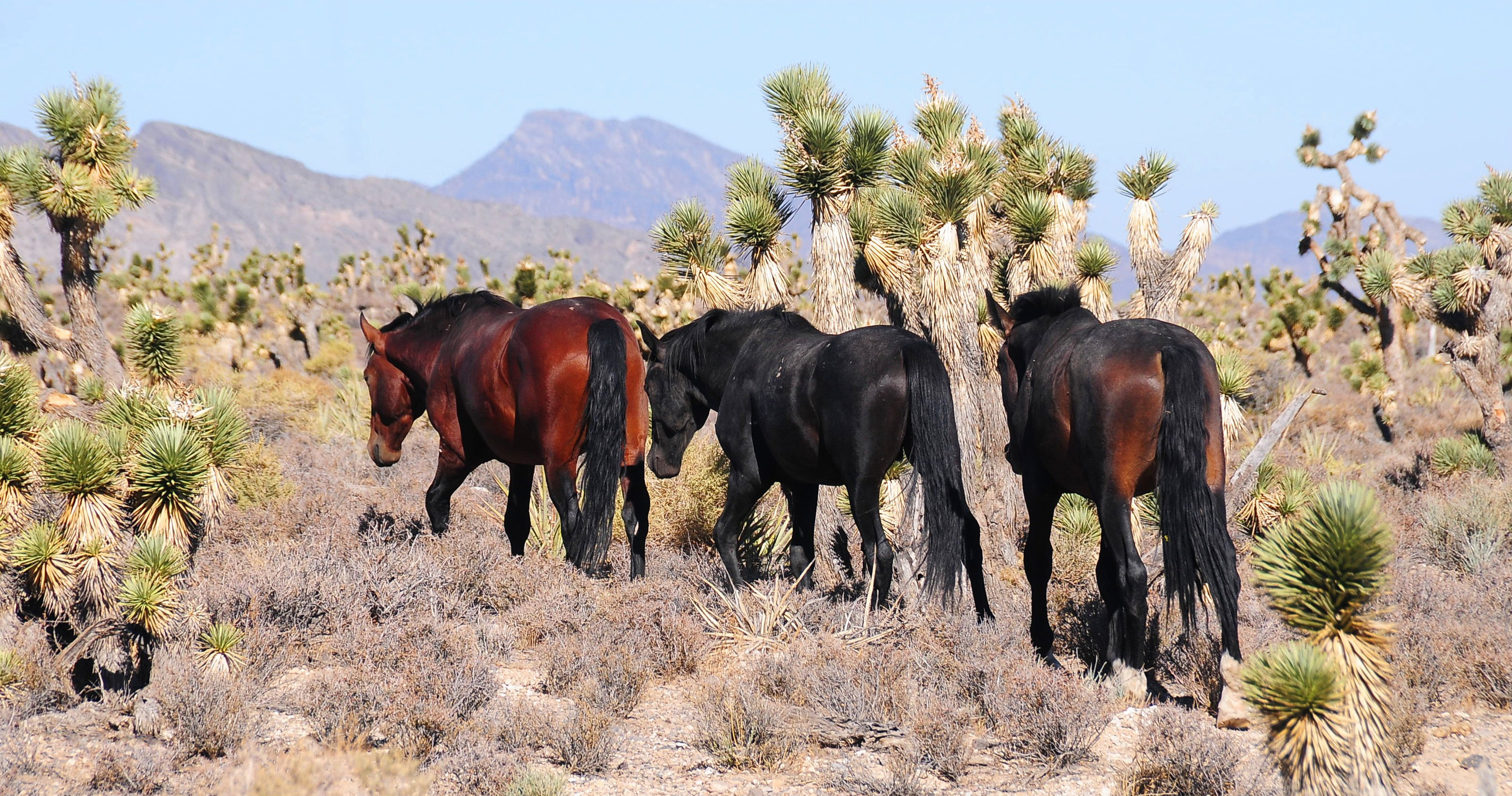 Feral horses in the Cold Creek, Spring Mountains, Nevada